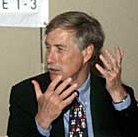 Angus King, former Governor of Maine